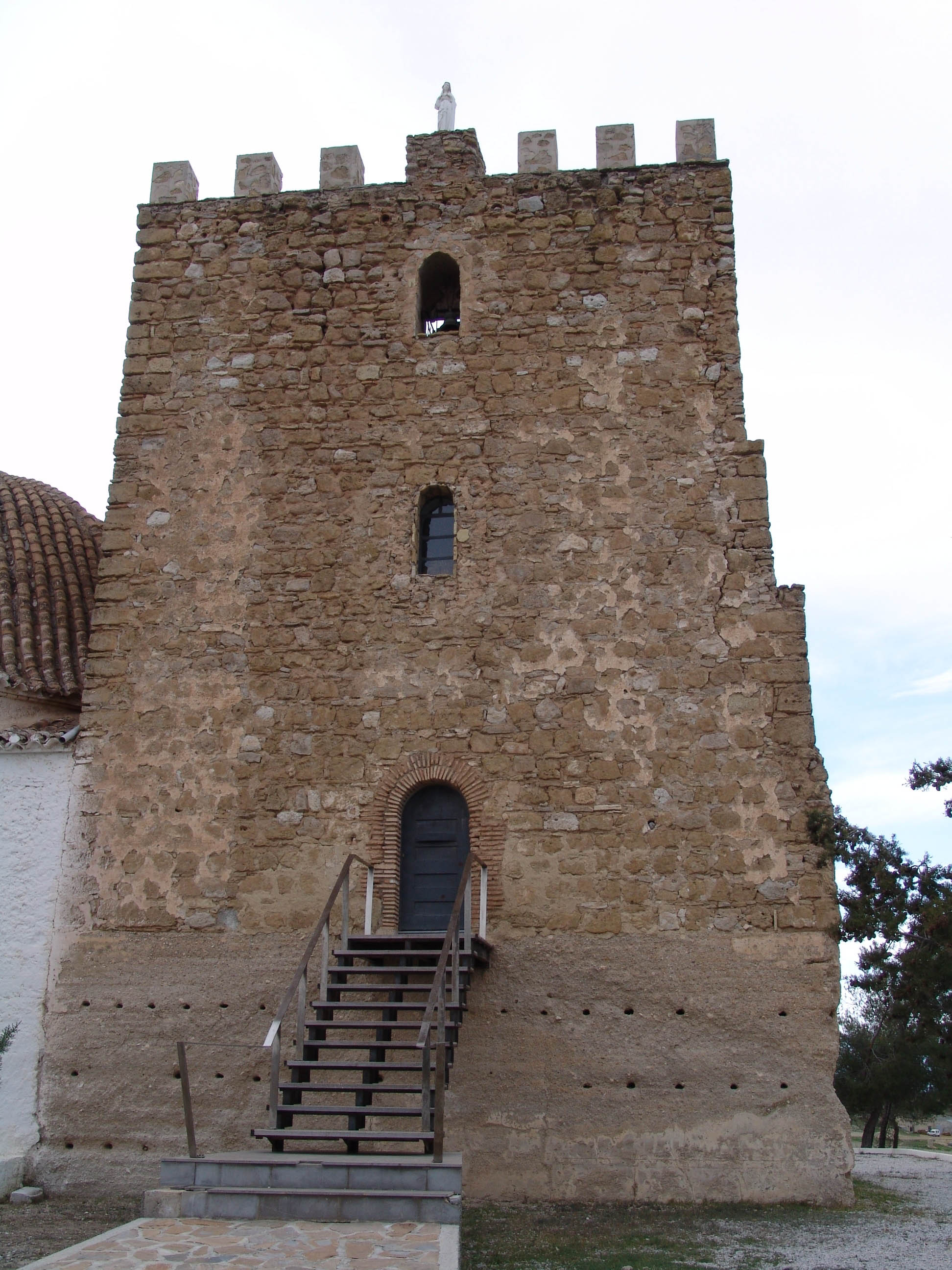 Cúllar´s keep (Granada).